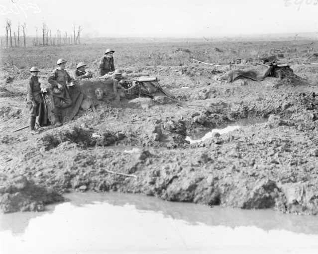 Australian machine gunners from the 12th Machine Gun Company, Ypres, September 1917